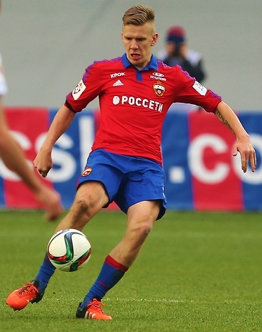 Pontus Wernbloom